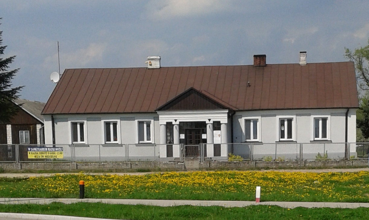 The rectory-monastery in Stara Błotnica